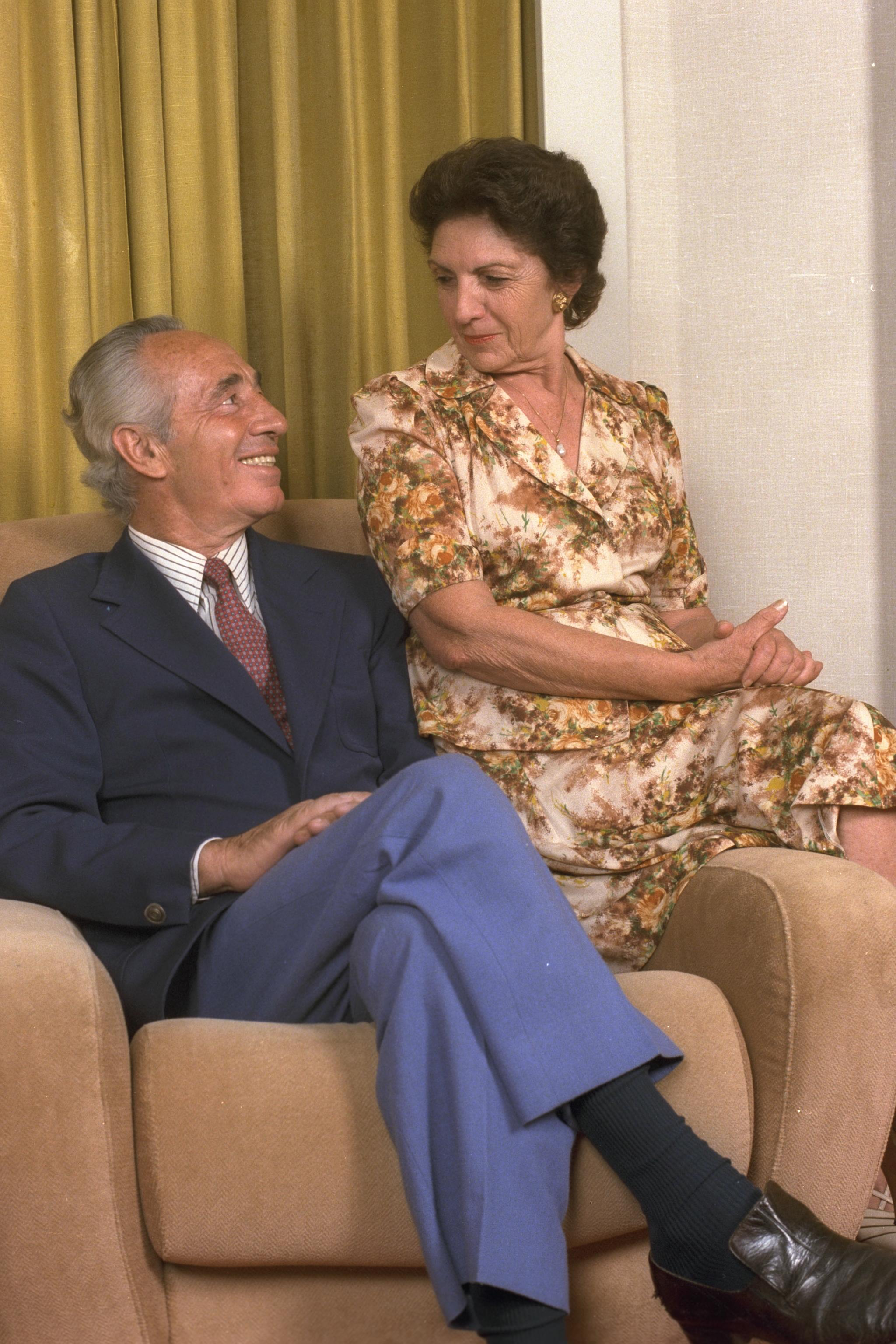 Mrs. Sonia Peres sits next to her husband, Prime Minister Shimon Peres.